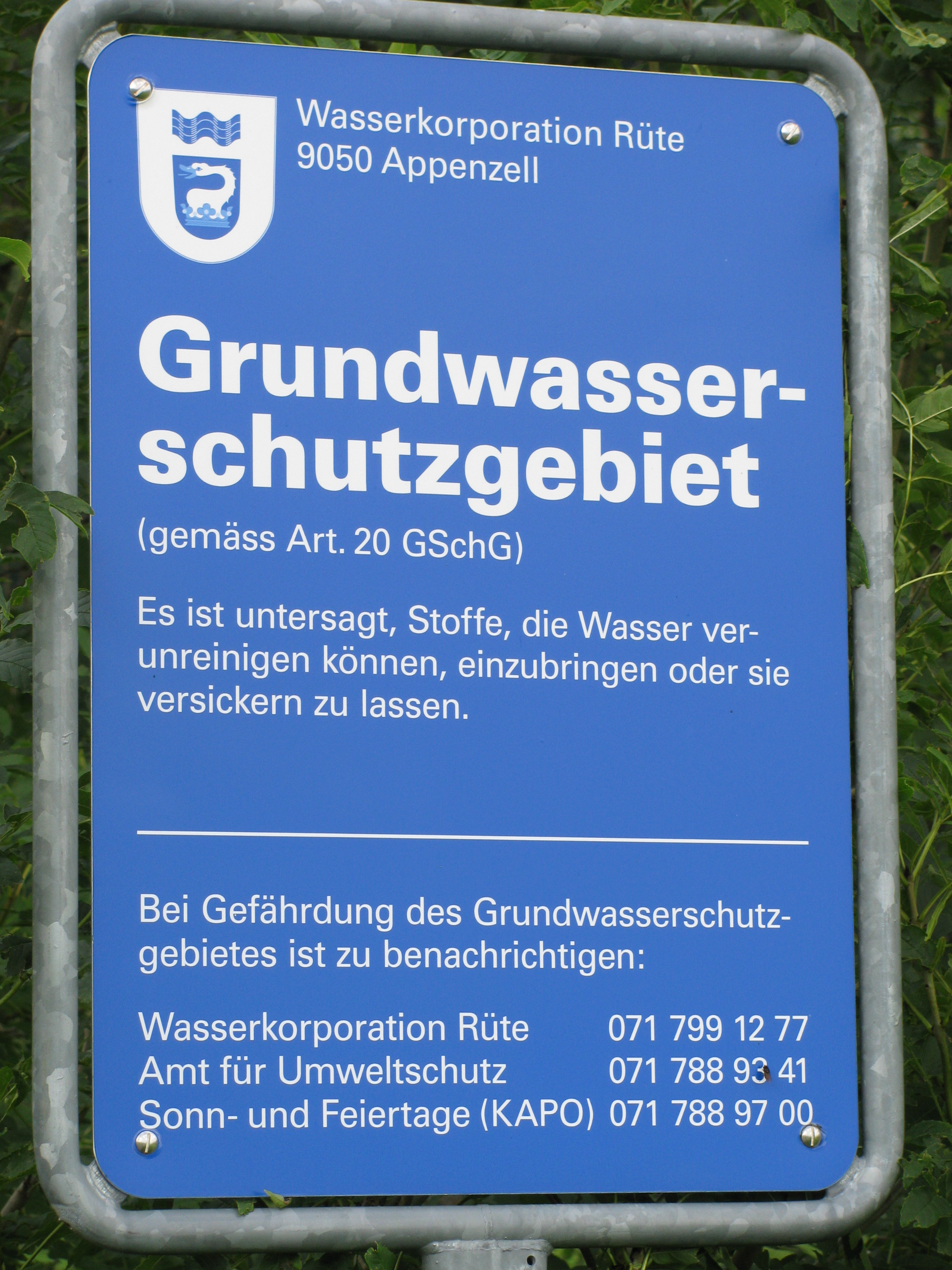 Switzerland - Canton Appenzell Innerhoden - Appenzell: sign "protected area for groundwater"